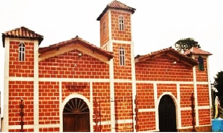 El Chaquiro, Santa Rosa de Osos